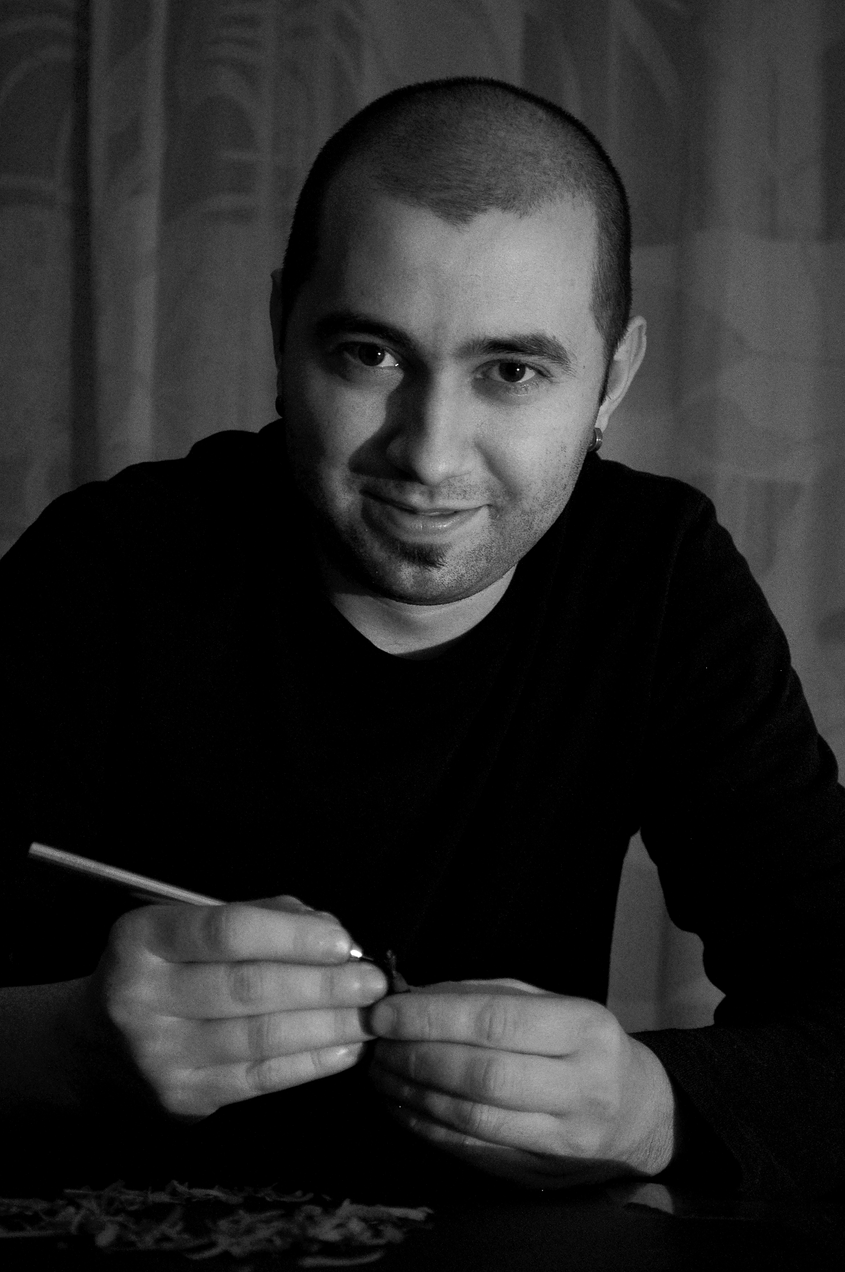 Jasenko Dordevic